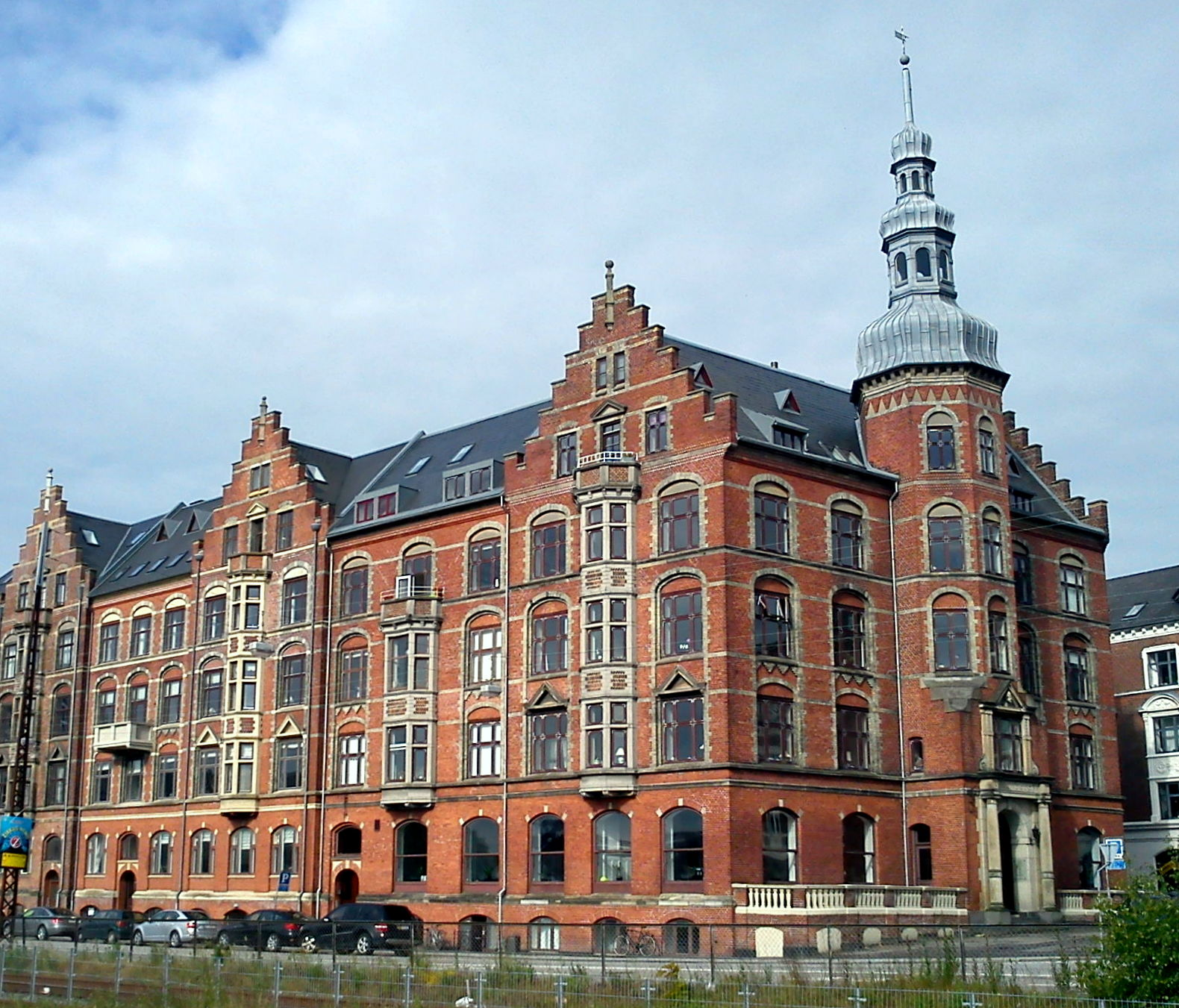 Mejlborg. This image is a cropped and colour modified version of an original photograph by User:RhinoMind.